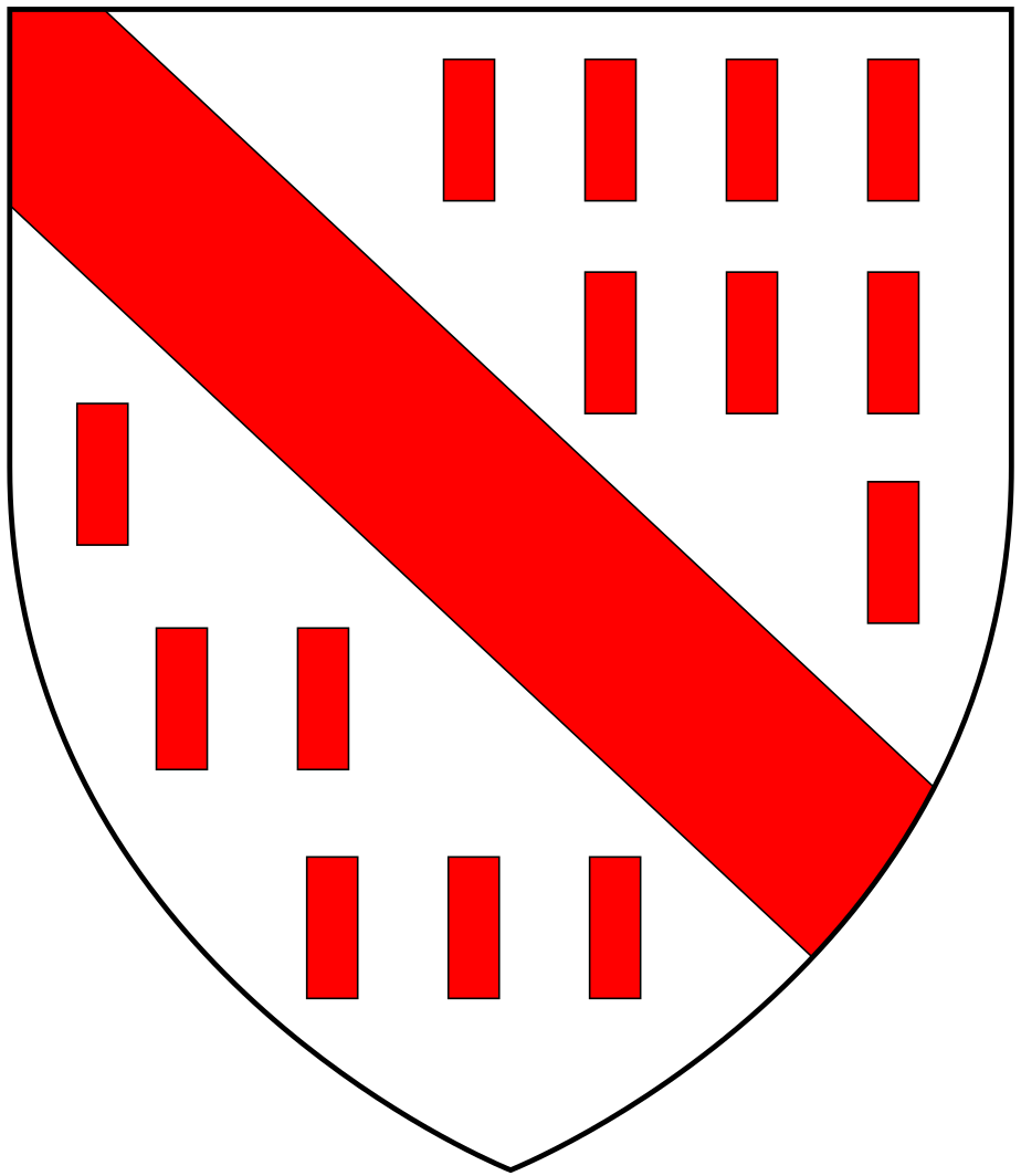 Arms of Bulteel of Flete, Holbeton and of Lyneham, Yealmpton, both in Devon: Argent biletée gules, a bend of the last. In 1660 John Bulteel of Westminster, MP, was Secretary to the Lord High Chancellor of England, Lord Clarendon, and in that year was confirmed by the Garter King of Arms the right to bear arms as follows: Argent semy of billets and a bend gules, with crest: Out of a crowne gules two wings argent billetté of the first.[1] Lysons, Magna Britannia (1822) gives the arms as: Argent, a bend between 14 billets gules with crest: Out of a ducal crown gules a pair of wings a(argent,azure)? billetty of the first.[2] See Bulteel monuments in Holbeton Church